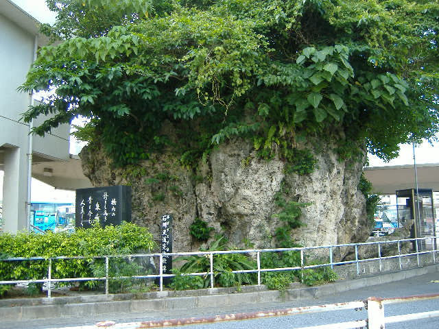 Nakajima no Ooishi